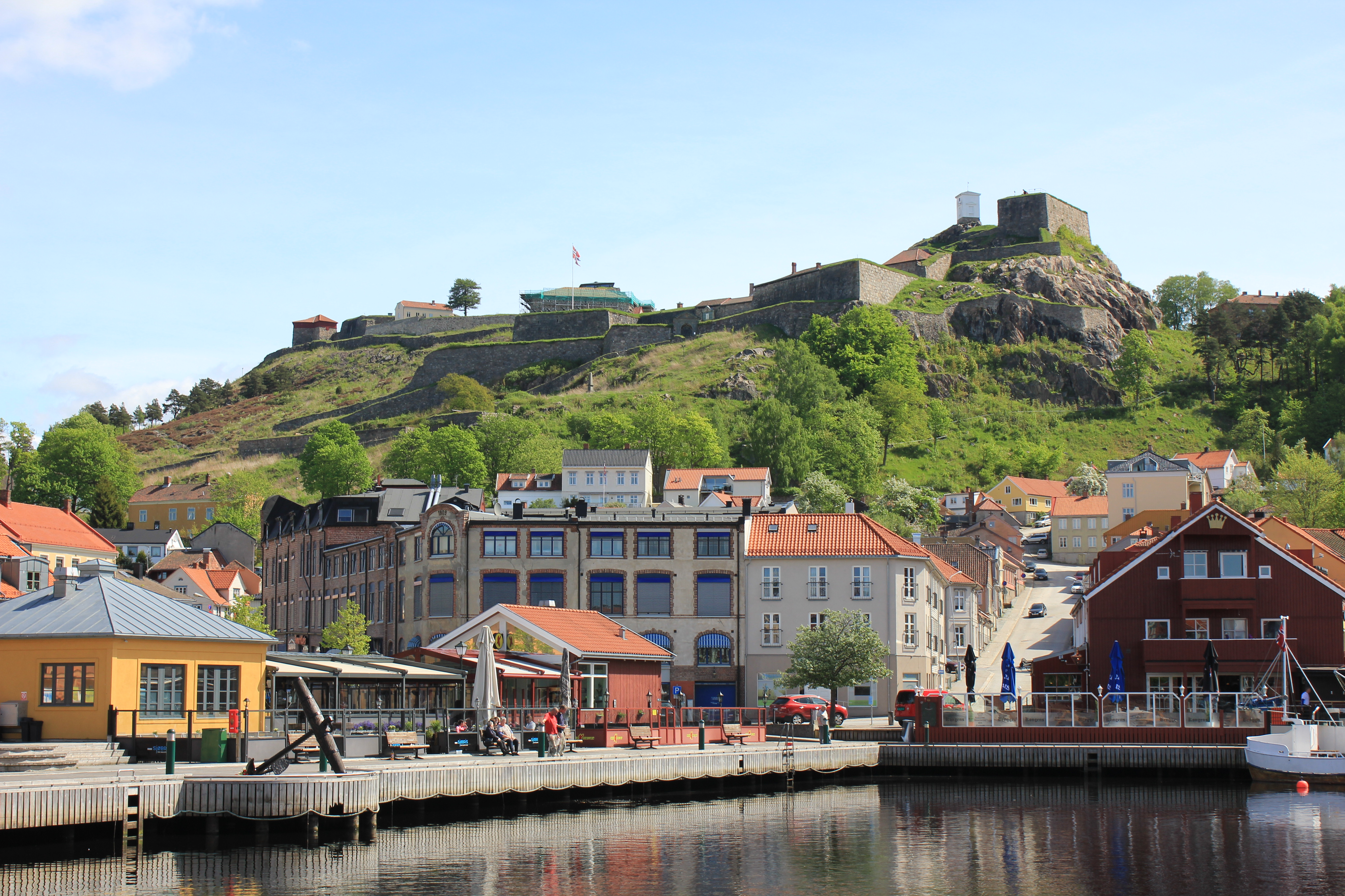 Fredriksten Fortress in Halden, Norway.